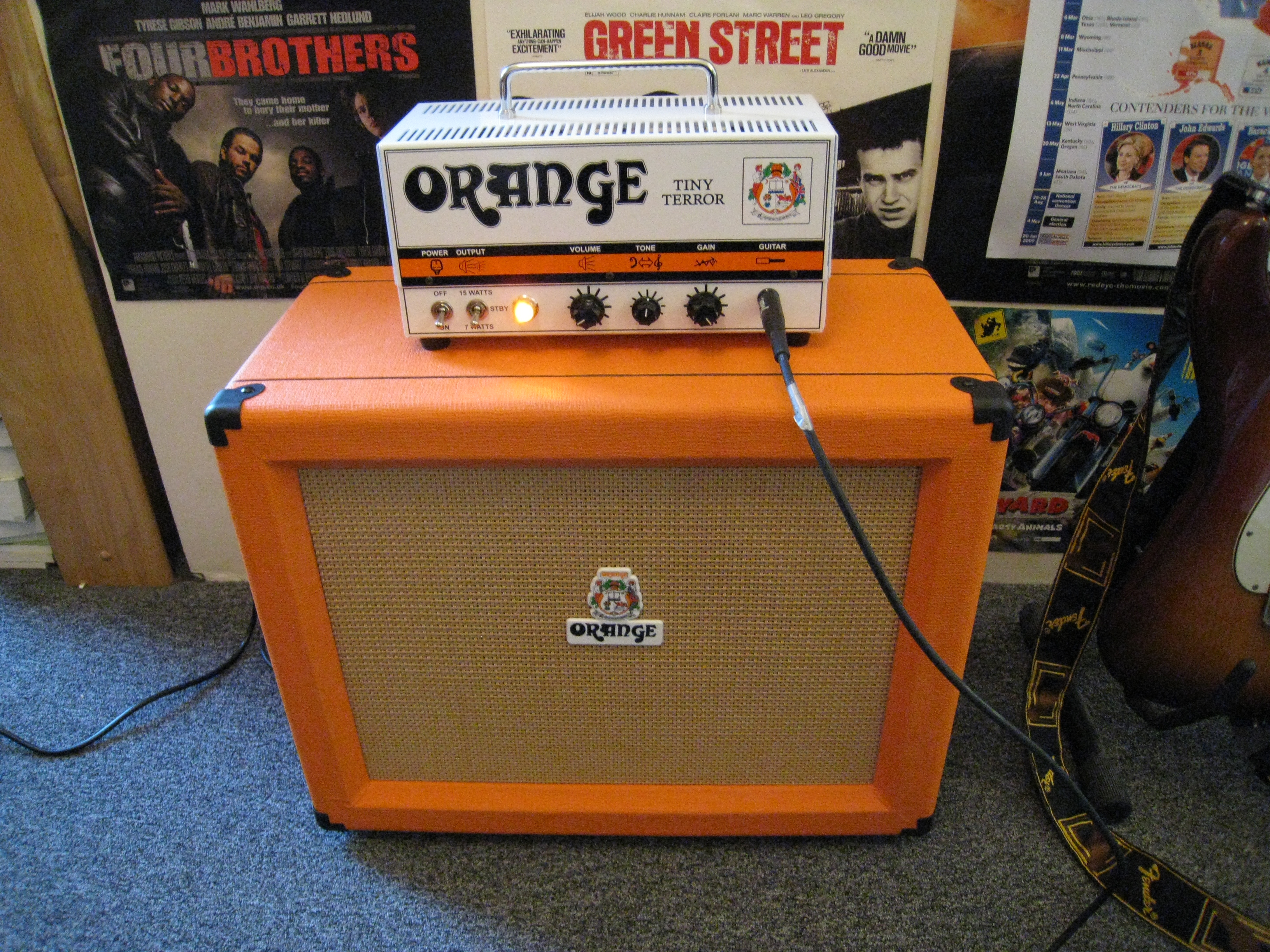 Orange Tiny Terror 50w Head Orange PPC112 1x12" Speaker Cabinet